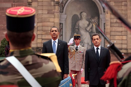 (President Barack Obama and France's President Nicolas Sarkozy stand together Friday, April 3, 2009, during the review of an honor guard at the Palais Rohan in Strasbourg, France.